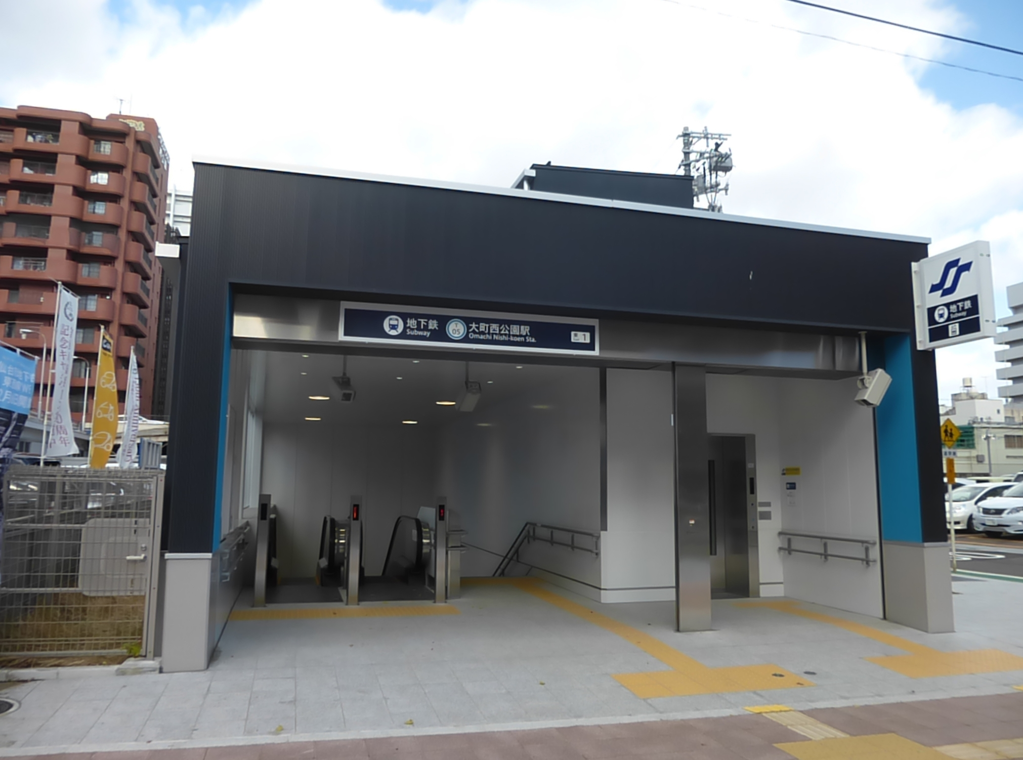 The "East 1" entrance to Omachi Nishi-koen Station on the Sendai Subway Tozai Line in Sendai, Japan